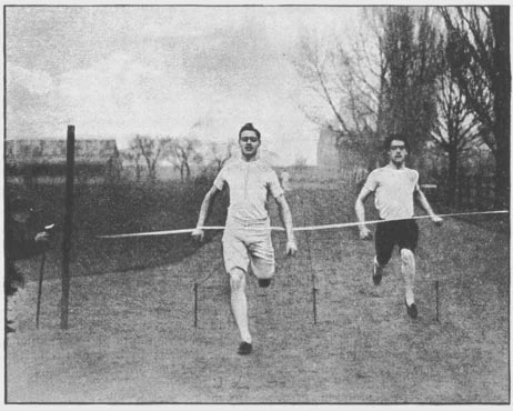 100 yard course at the Detroid Athletic Club in Detroit, Michigan - 1888